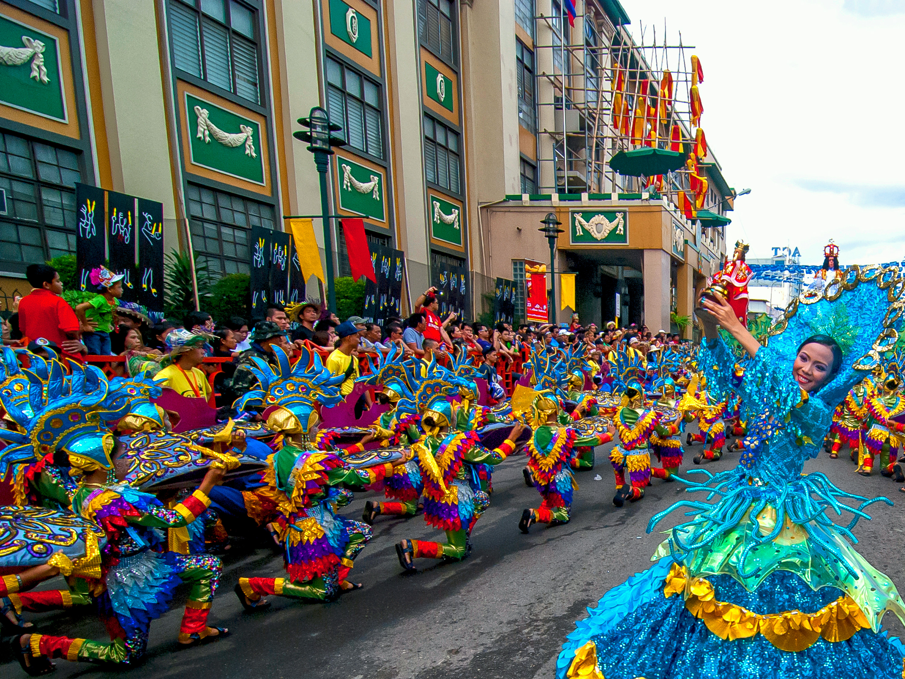 Contingents pass by University of San Carlos Main along P. Del Rosario Street every year during the Sinulog Mardi Gra Parade